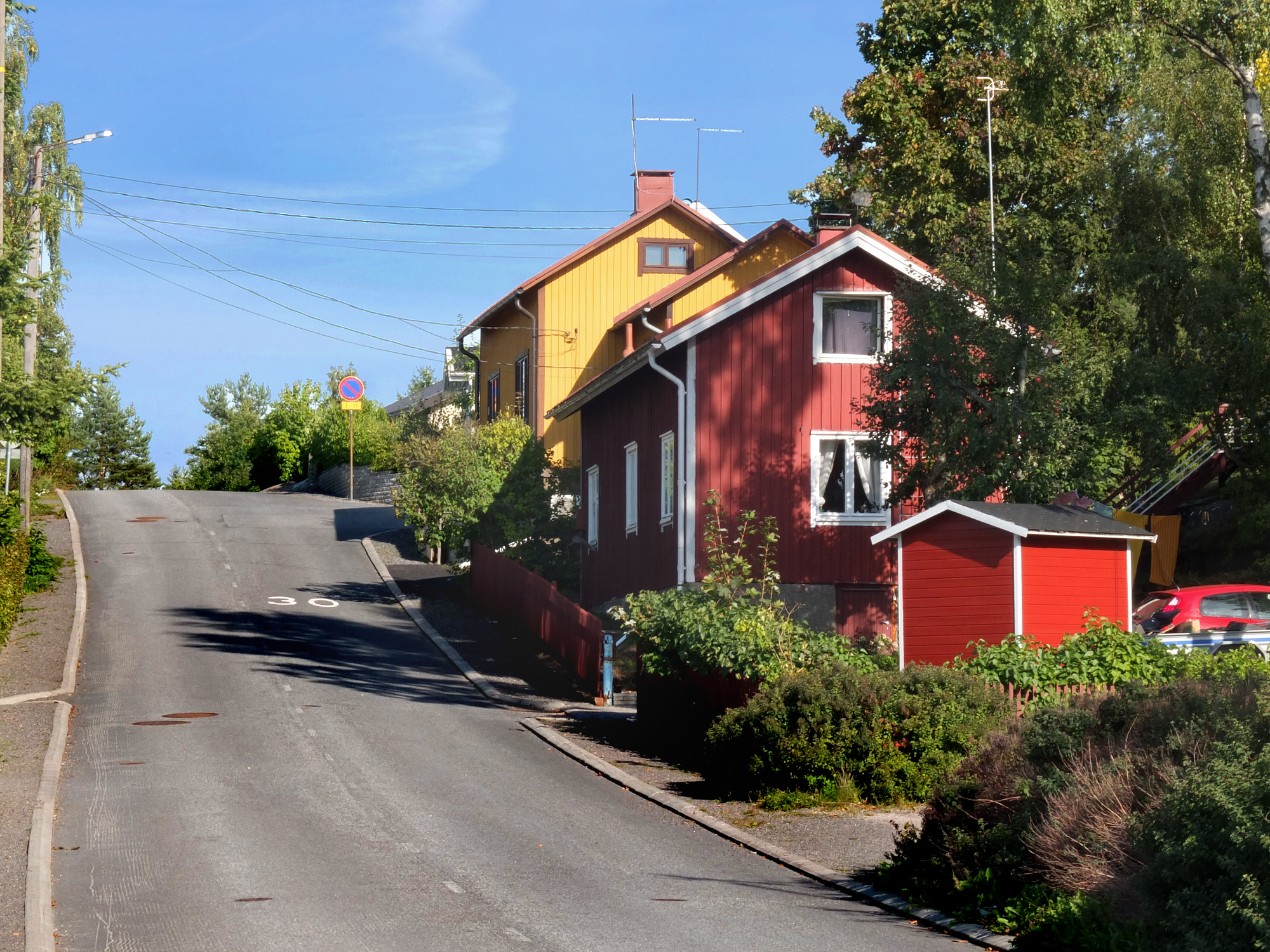 Houses in the Myllymäentie street, Vähäheikkilä, Turku, Finland.